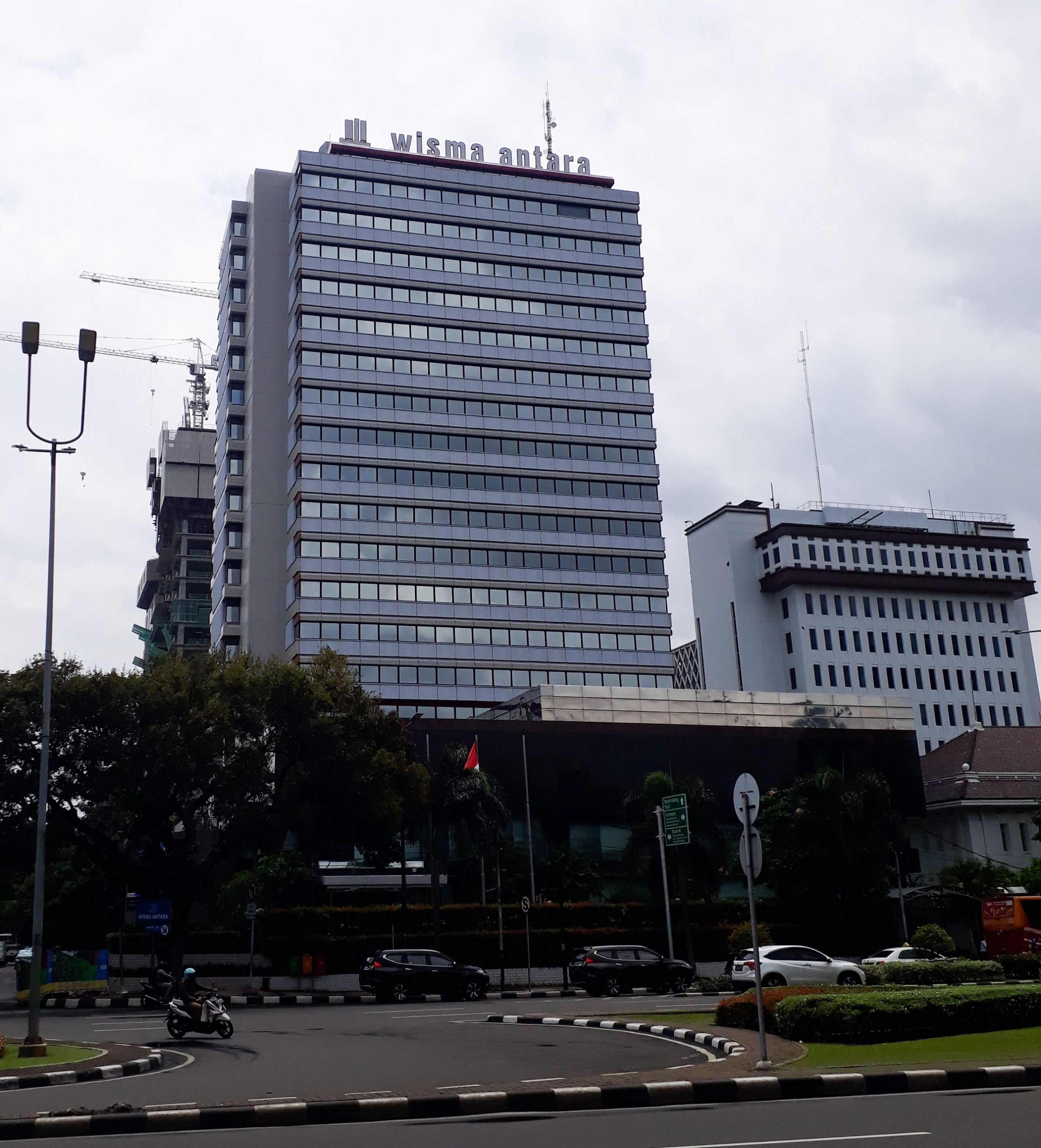 Office of the Indonesian Antara news agency